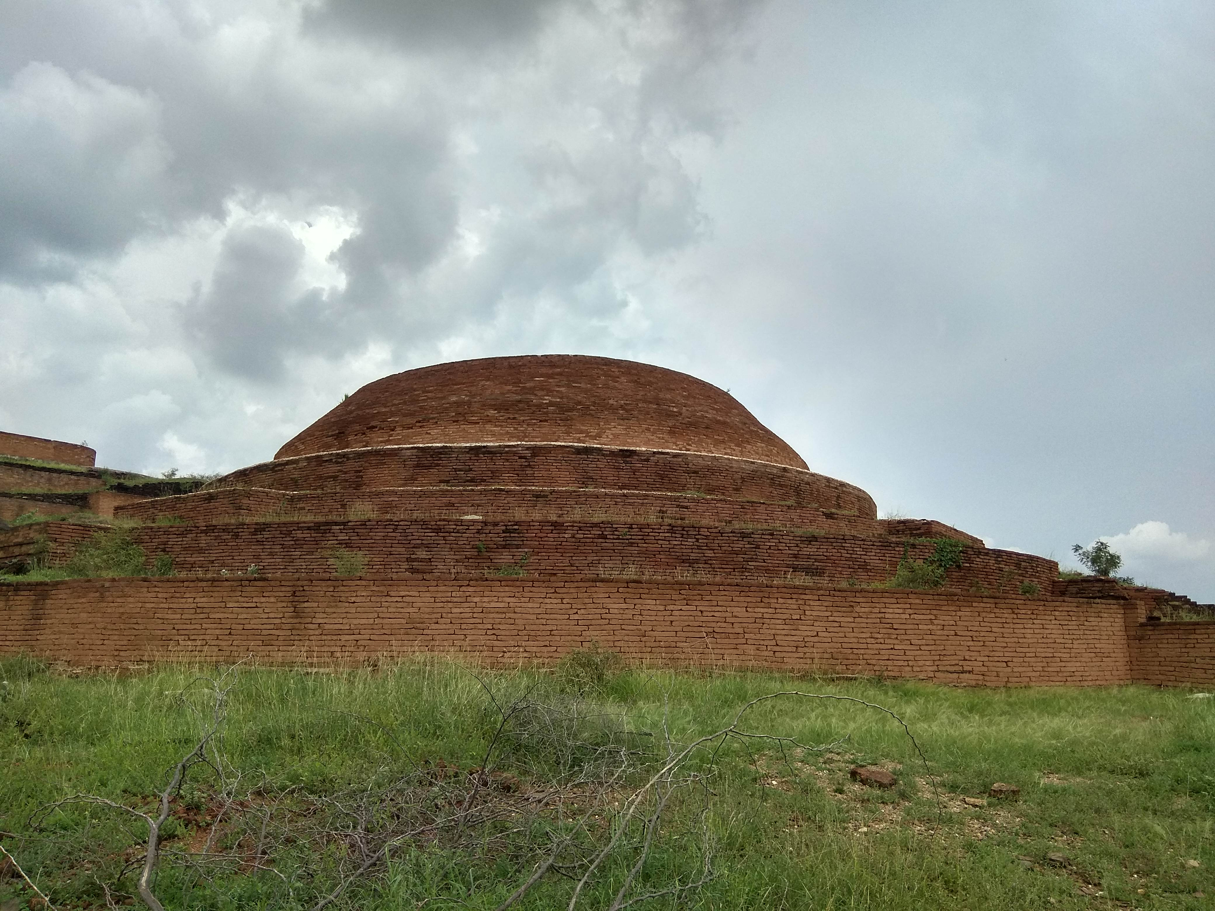 Chandavaram buddha stupa